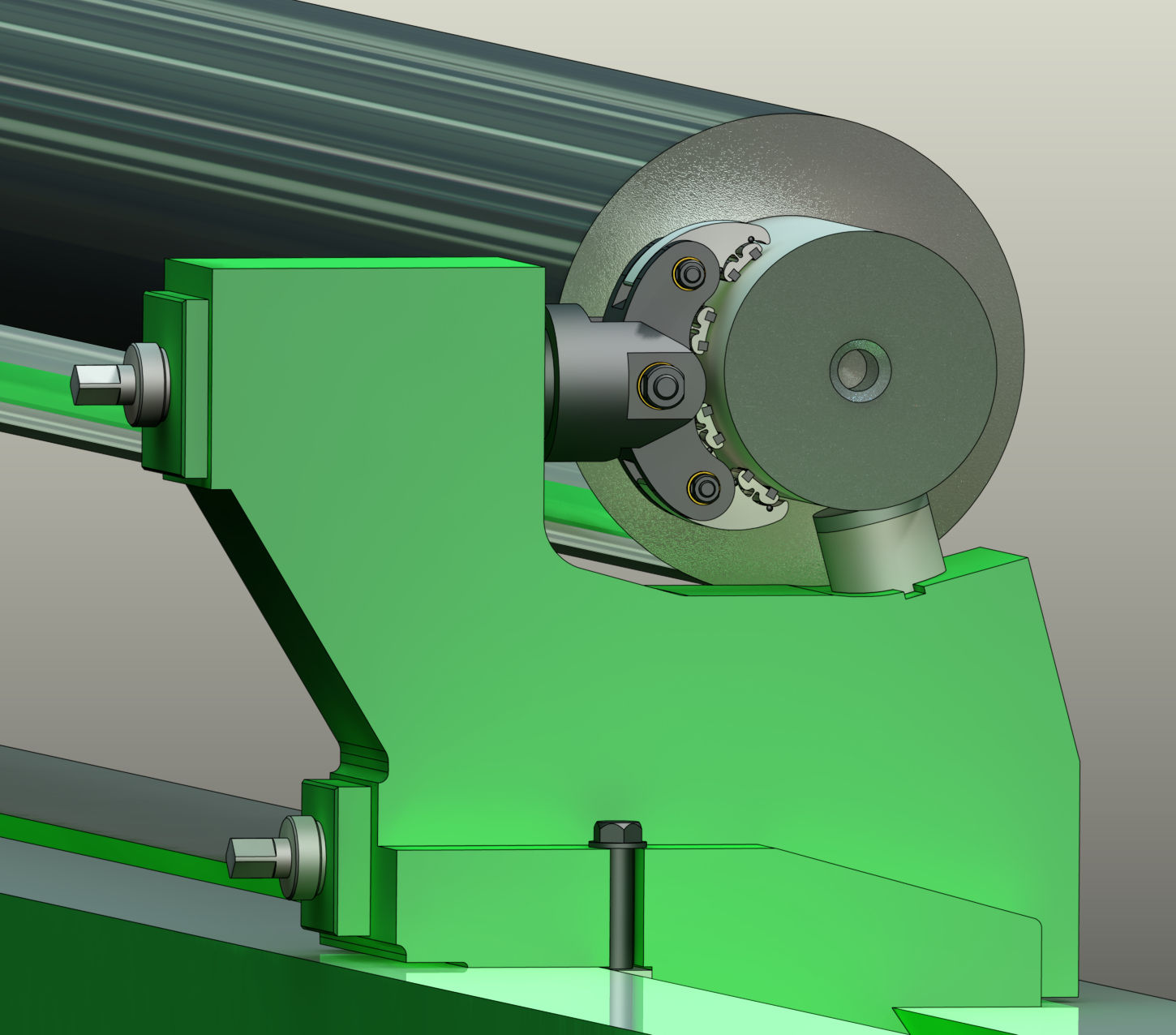 Correcting rest for grinding machine or lathe (out of roundness improvement)